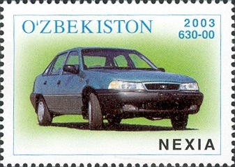 Stamps of Uzbekistan, 2003